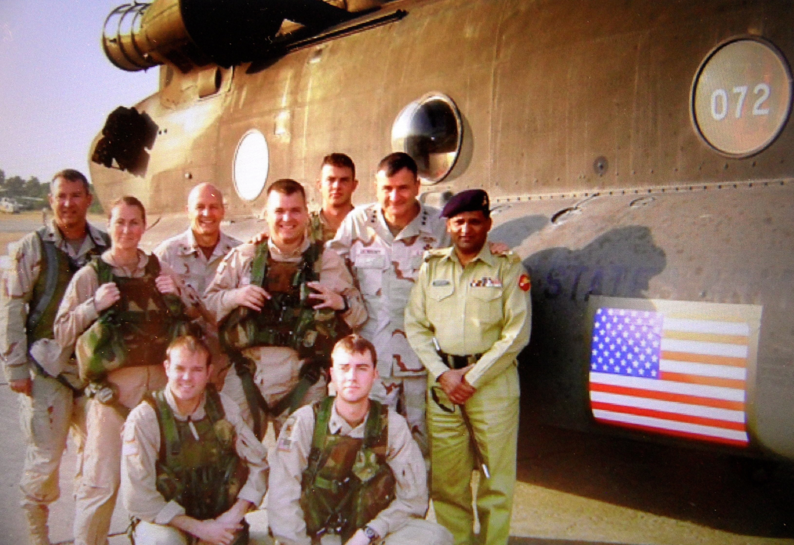 With US Army Aviation CH-47 crew and Pakistan Army Liaison Officer in Pakistan when commanding the US-led coalition Kashmir earthquake disaster relief operations, September 2005.